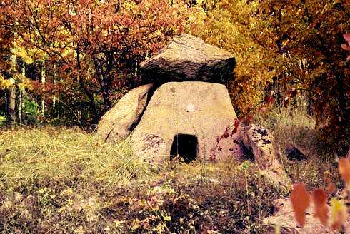 Granichar dolman pyramid BG